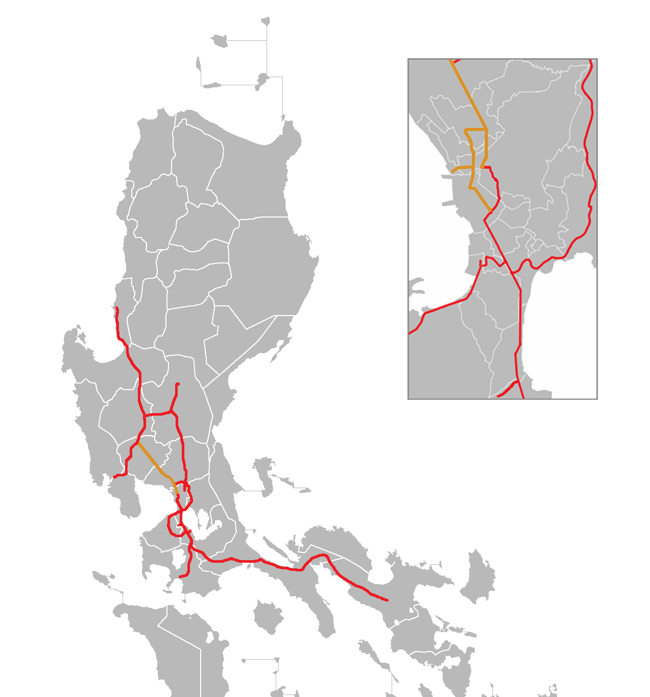 Includes all segments and NLEX connector